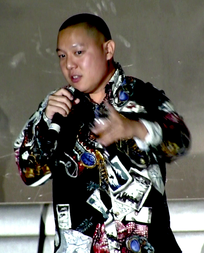 Eddie Huang at a panel discussion for the new show Fresh off the Bat